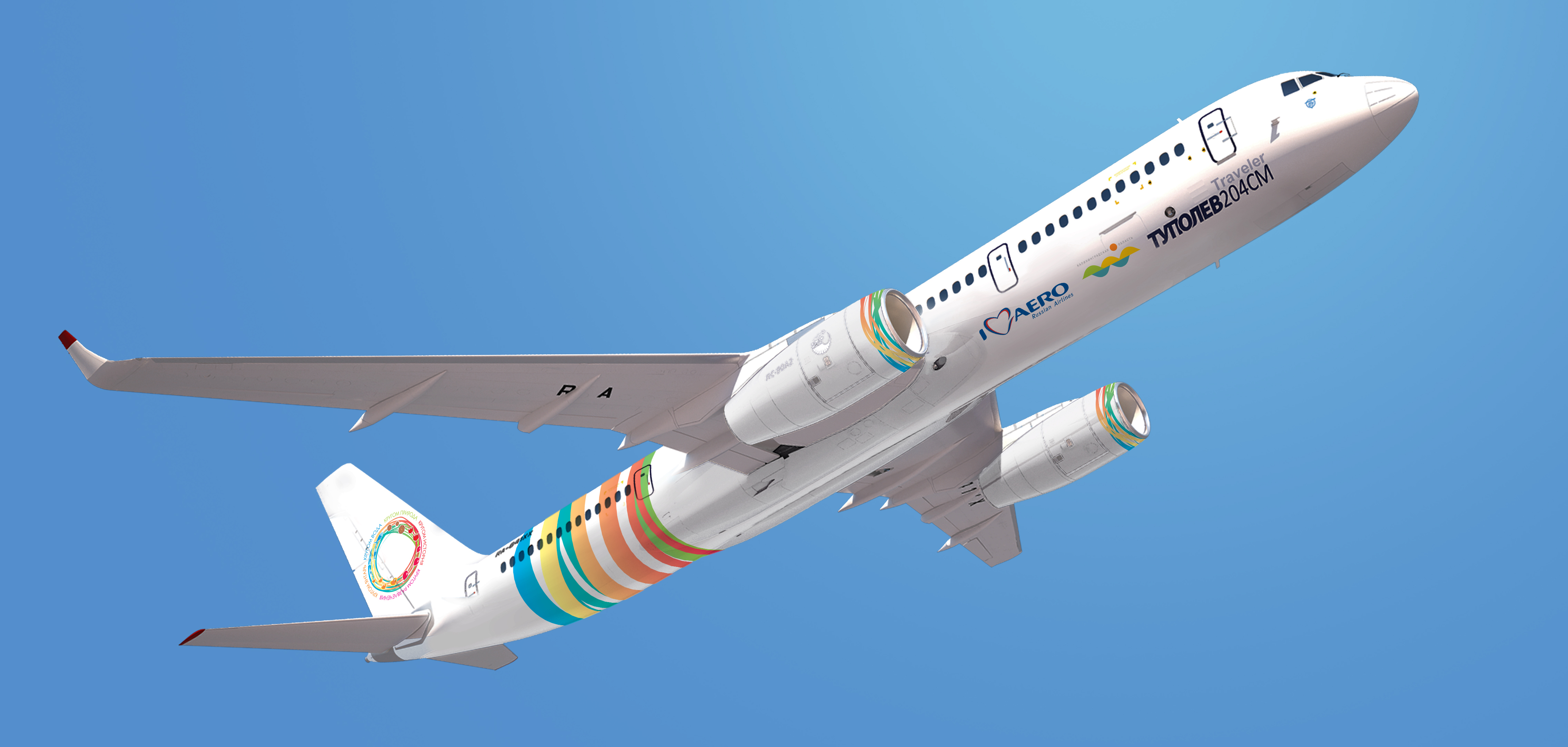 National Cobranding: Airlines+Aircraft+Region (example by Astro Design LLC; national brand by Alexandr Pronin)